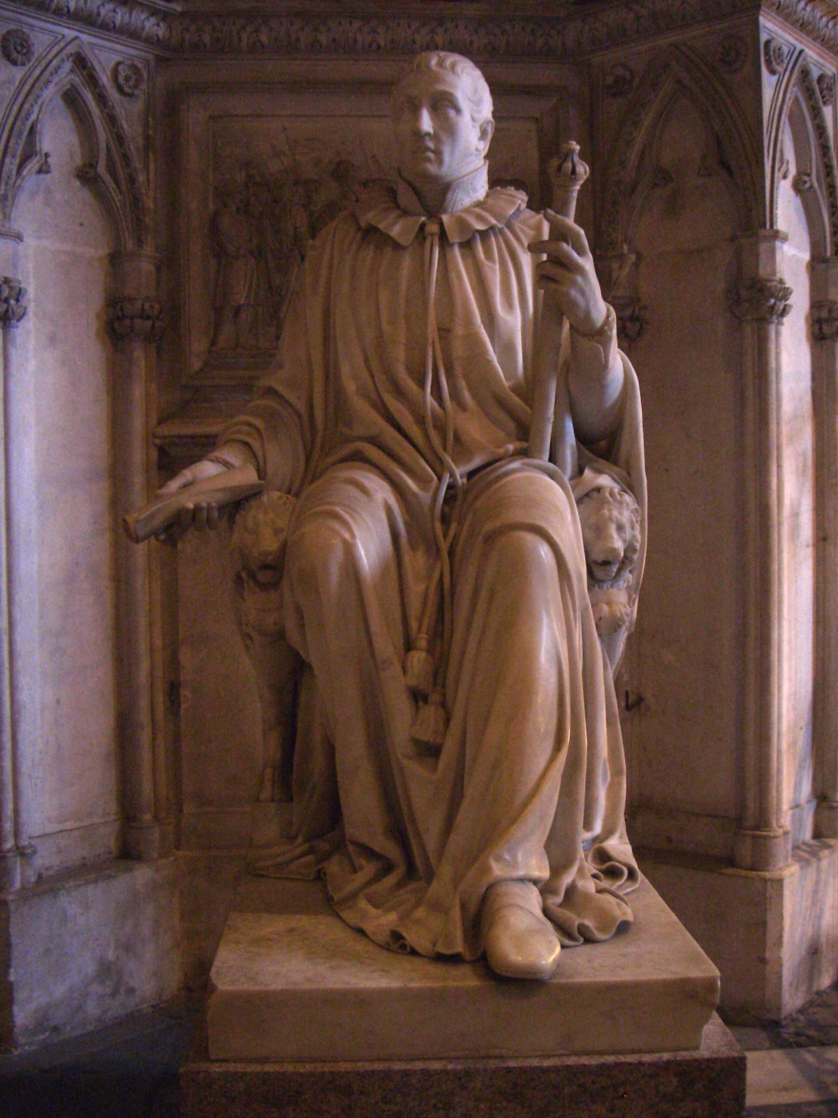 Charles Felix of Savoy, King of Sardinia-Piemont, 1765-1831. Marble statue on his sepulchre in Abbey of Hautecombe, Savoy, France